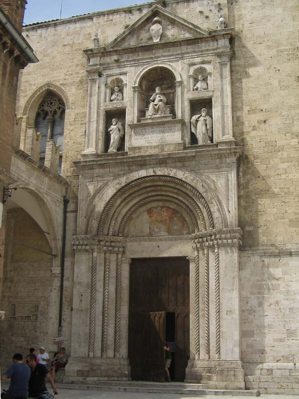 Ascoli Piceno - Church of San Francesco - Entrance facing Piazza del Popolo with the Giulio II monument